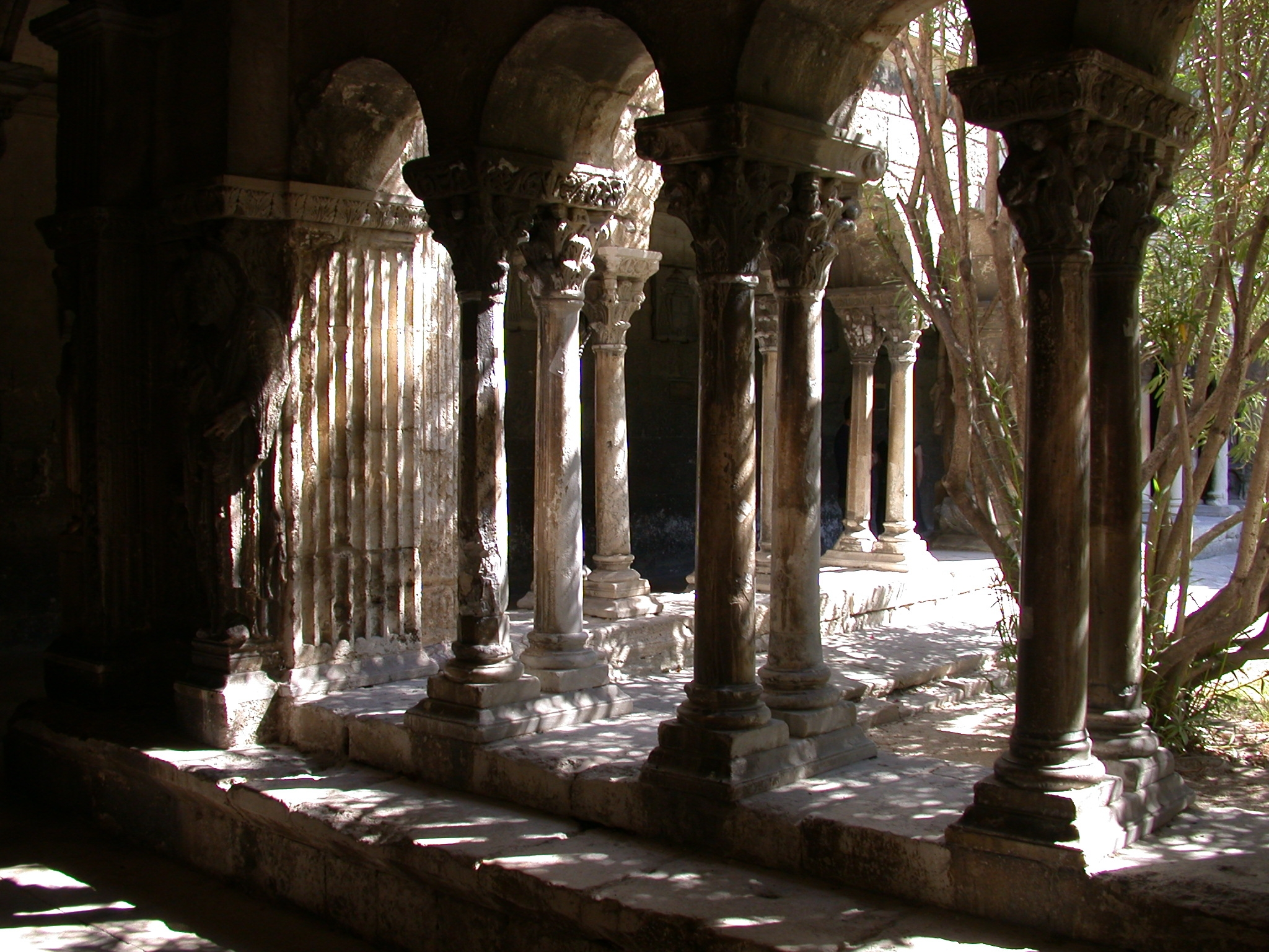 Cloister